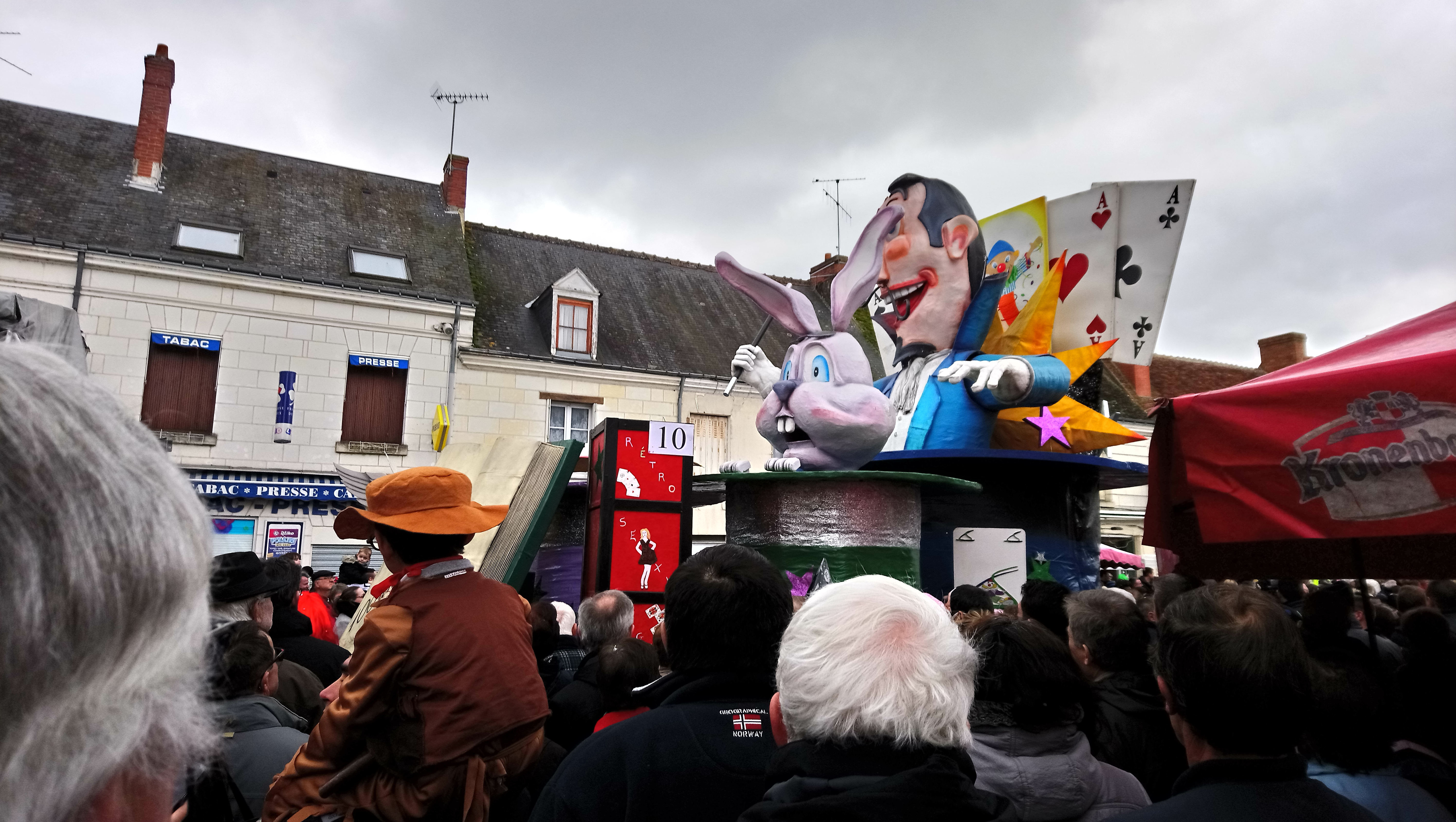 Carnaval de Manthelan